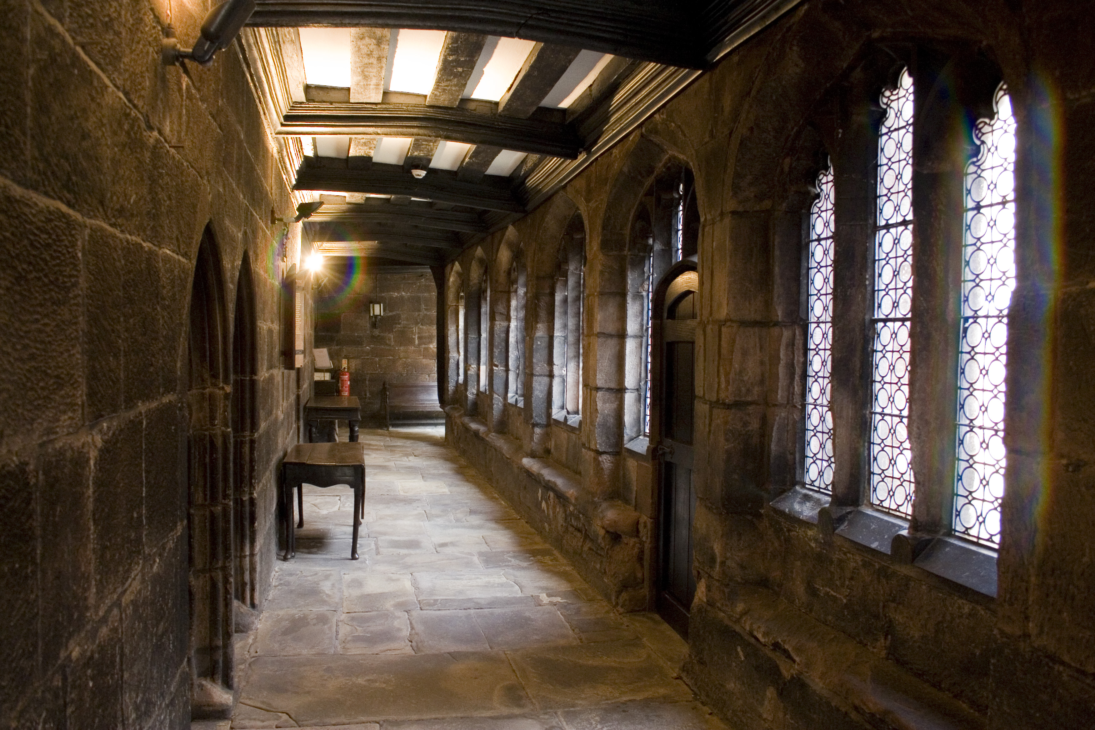 Interior of Chetham's College